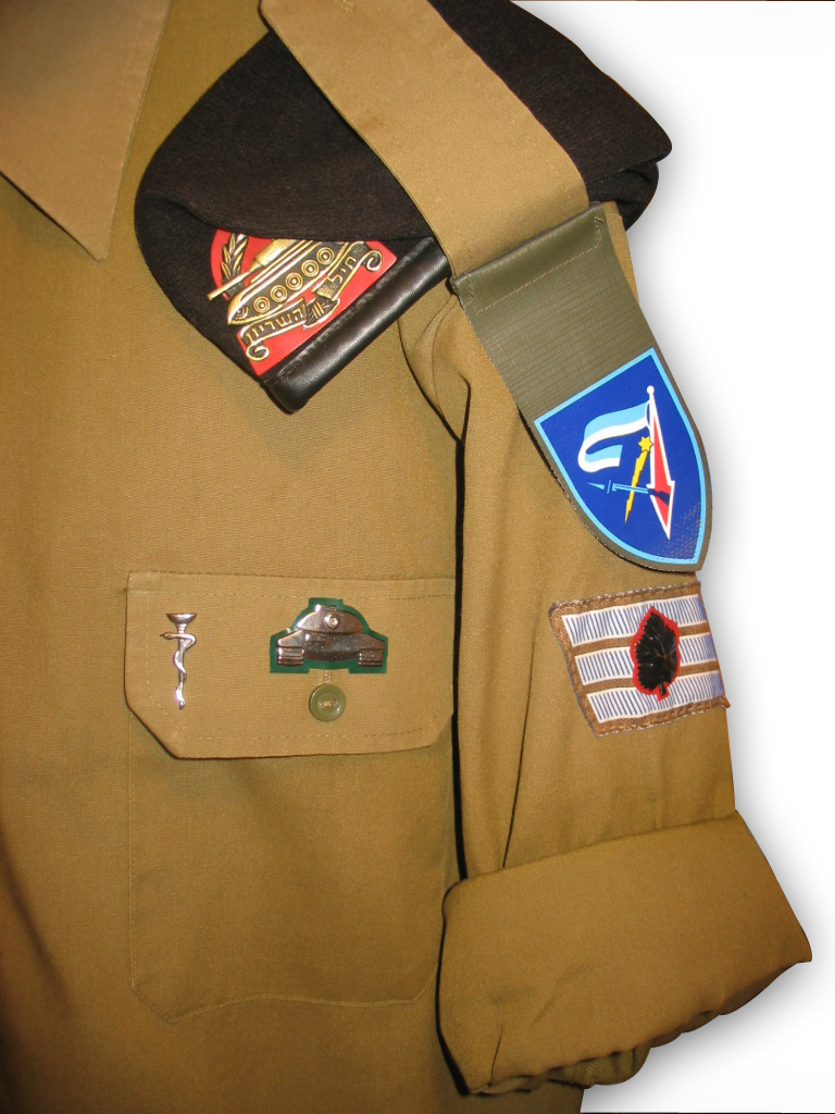 IDF 7th brigade staff sergeant uniform